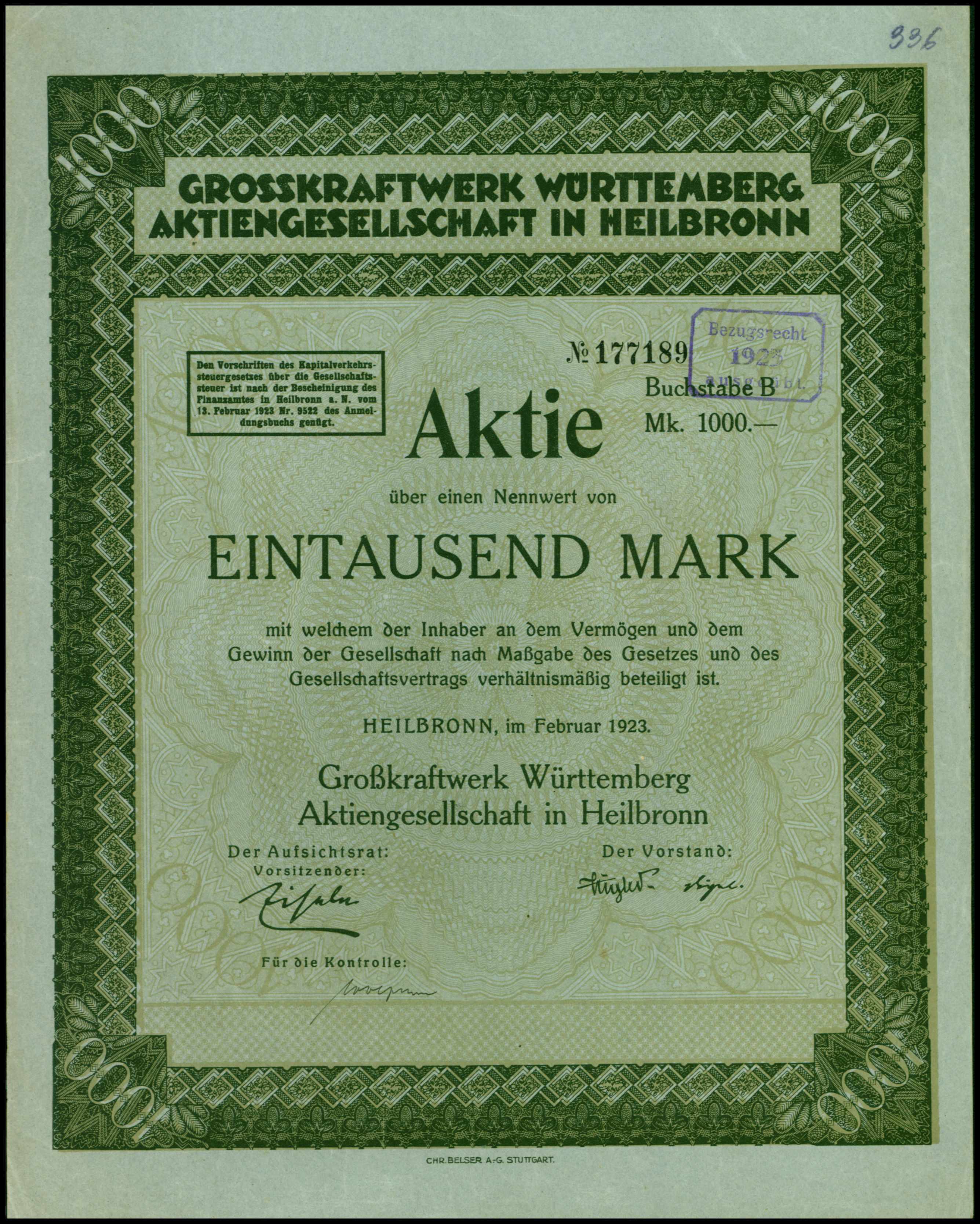 Share of the Großkraftwerk Württemberg AG, issued February 1923